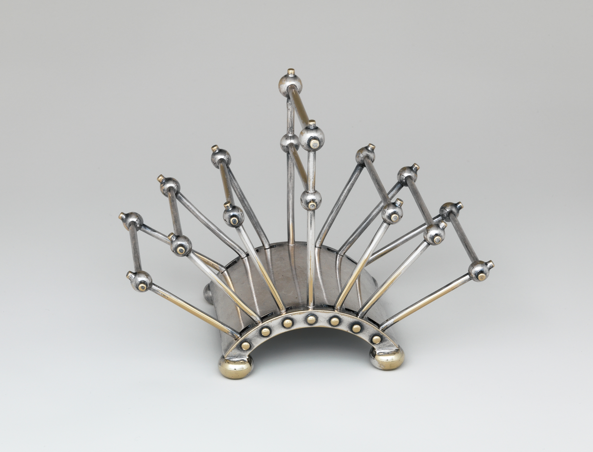 British, Birmingham and London; Toast rack; Metalwork-Silverplate According to the Book Immer modern ISBN 978-3-95498-360-3 Invalid ISBN (german), this is the Letter Holder Nr. 2556.